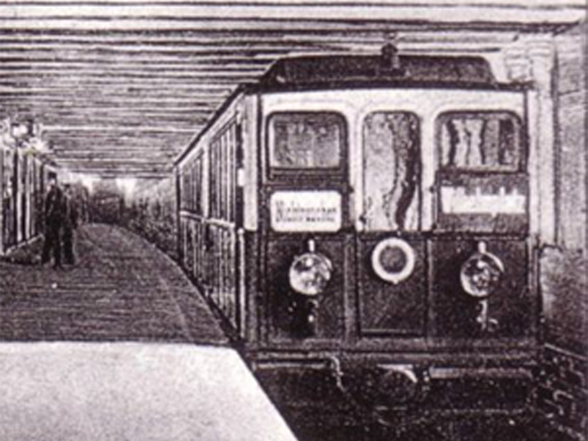 Berlin subway type A